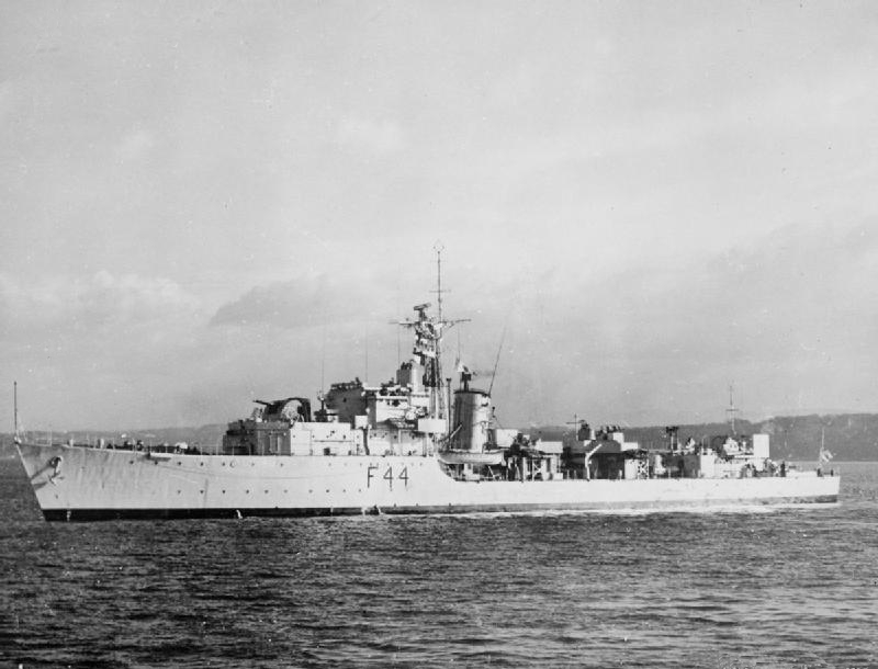 Port broadside view of the Royal Navy Type 16 anti-submarine frigate HMS Tenacious (F44). The Type 16 frigates were the result of a limited conversion from the O and P-class and T-class destroyers. The limited conversion was a response to the expensive full conversion which resulted in the Type 15 frigates.